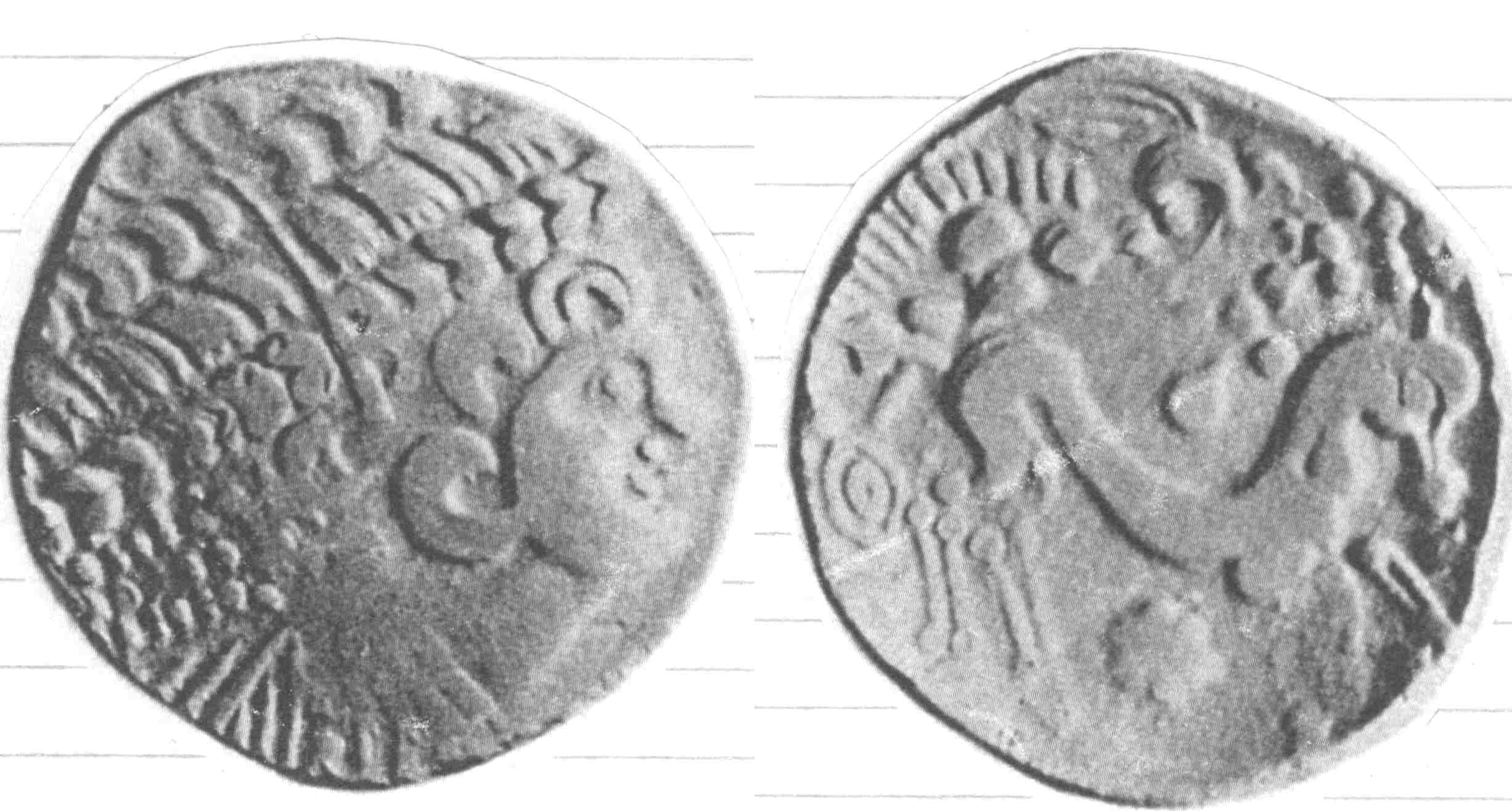 An Iron Age Gold stater from NULL NULL Celtic Coin Index reference: 95.3197